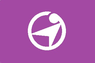 Flag of Fukuaura Aomori